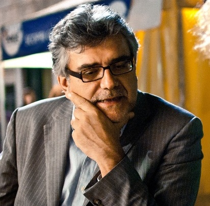 Giancarlo De Cataldo, Italian writer